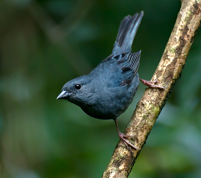 A male Uniform Finch in Parque Estadual da Cantareira, São Paulo, Brazil.